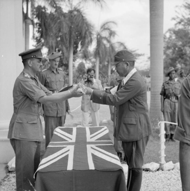 The British Reoccupation of Malaya Brigadier C P Jones CBE, MC receives the sword of General Ayabe, Chief of staff of the Japanese 7 Area Army, which controlled Malaya, Java, Sumatra, Nicobar and Andaman Islands, parts of Borneo and Siam, at a formal ceremony of surrender held in the grounds of Headquarters Malaya Command, Kuala Lumpur.